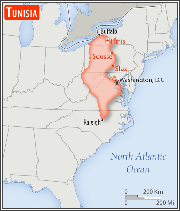 Comparison of the areas of two country. The area of Tunisia with biggest cities (red) overlay the area of the United States of America (gray background).